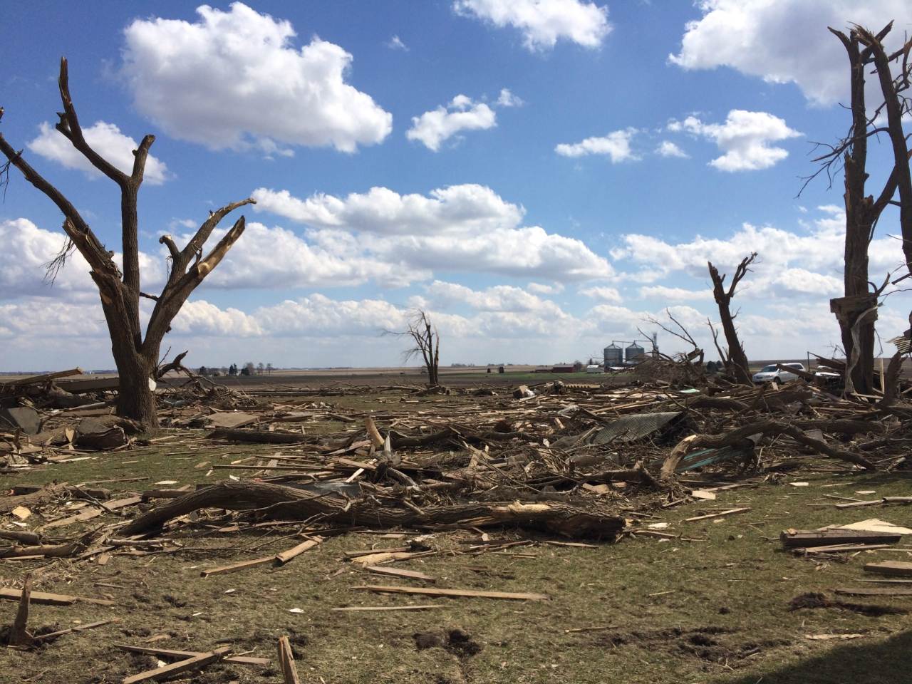 A farmstead completely leveled by the April 9, 2015 Rochelle, Illinois tornado. This farmstead was impacted by winds estimated at 200 mph (320 km/h), the upper bounds of an EF4 tornado.